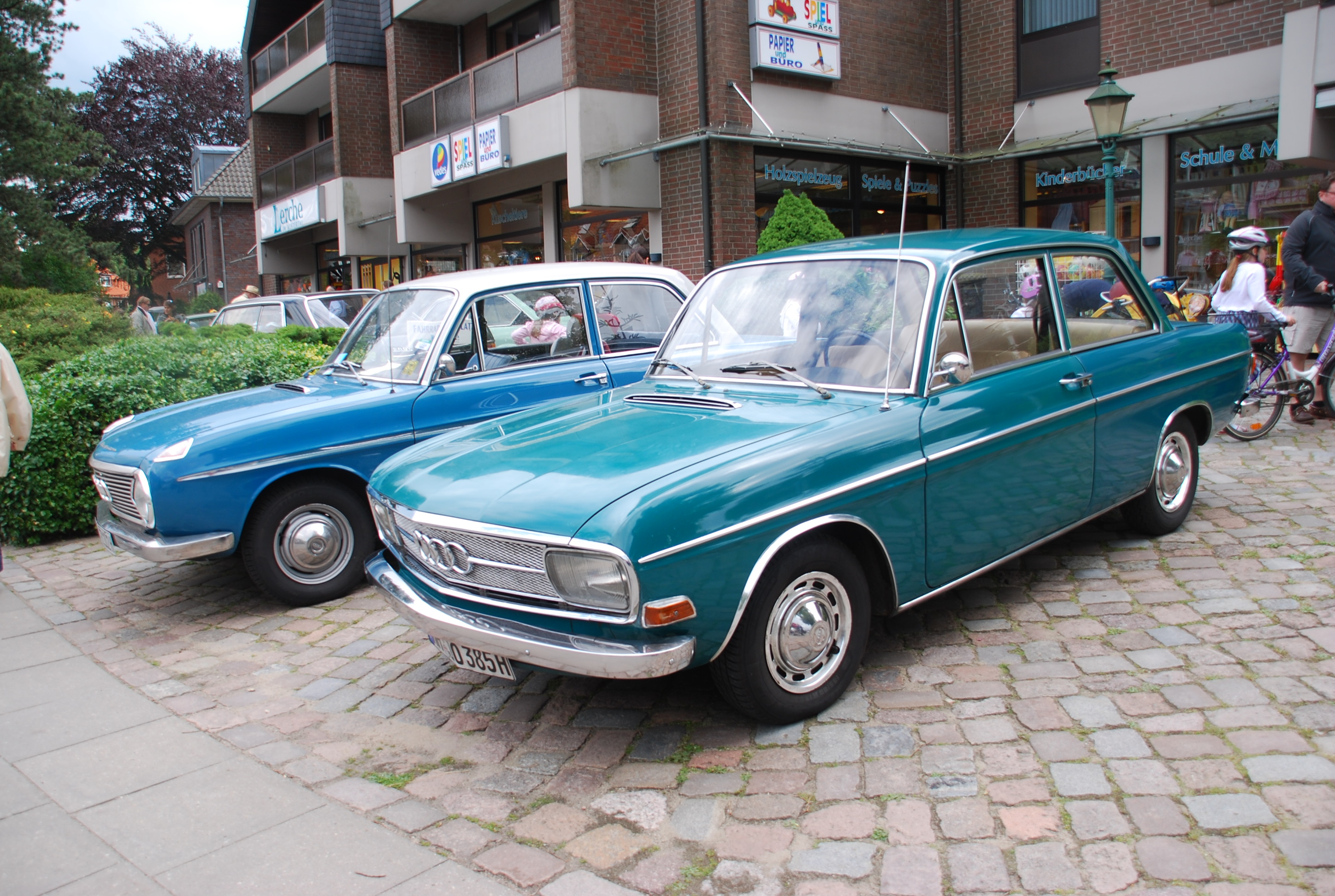 DKW F102 (l) + Audi F103 (r)